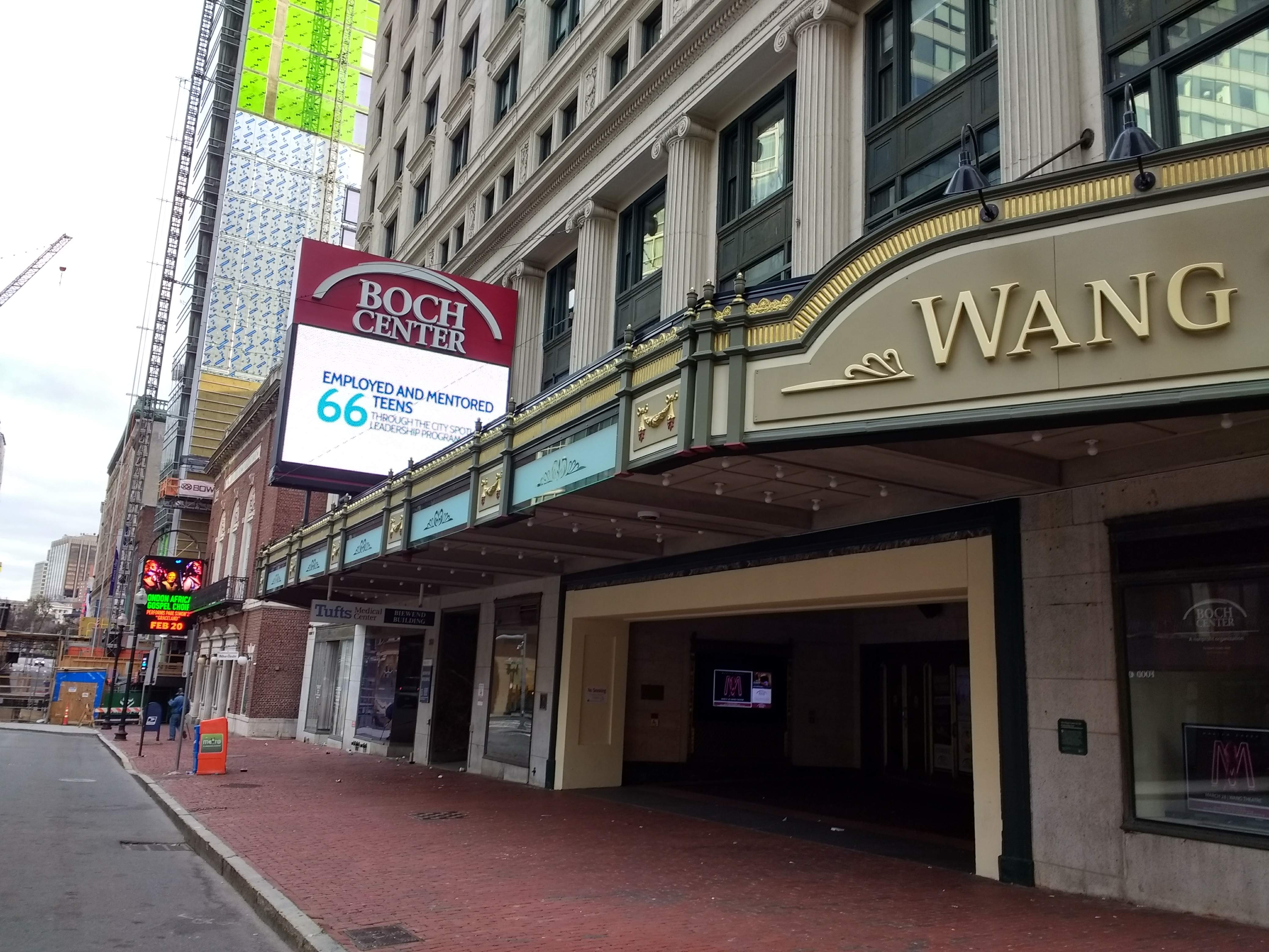 The main entrance to the Boch Center in Boston Massachusetts.